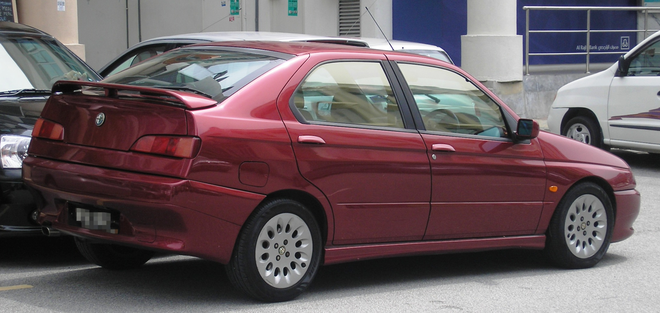 Rear-side shot of an first generation Alfa Romeo 146, in Serdang, Selangor, Malaysia.